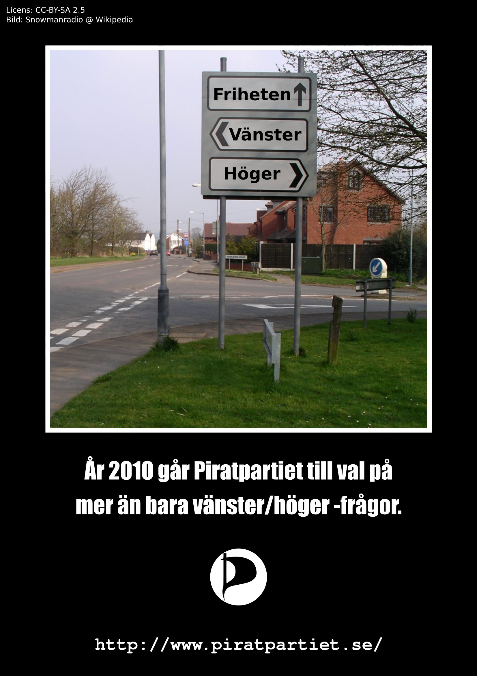 Promotional poster by the Swedish Pirate Party